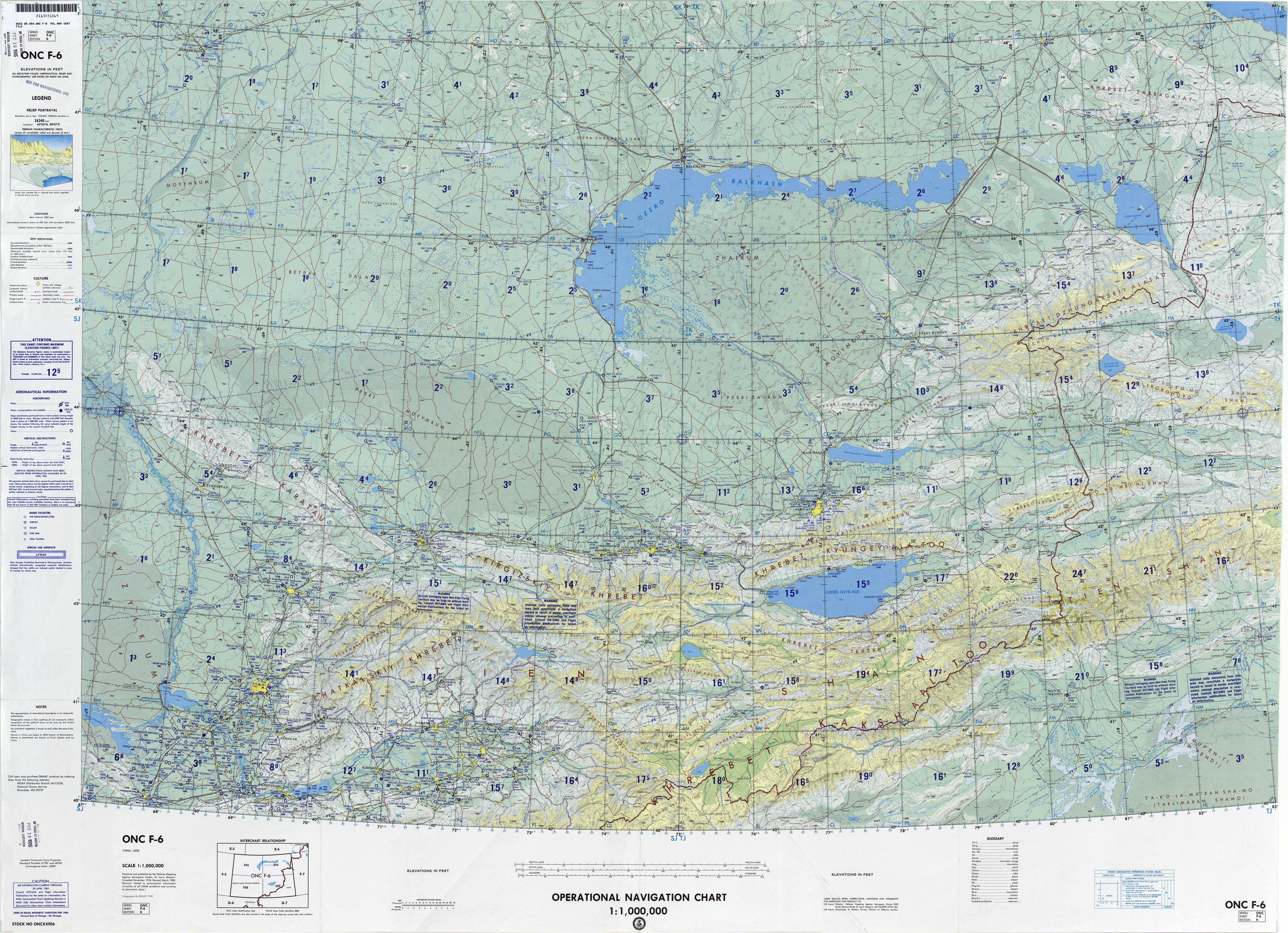 1:1,000,000 scale Operational Navigation Chart, Sheet F-6, 6th edition. Covers China, U.S.S.R. Lambert Conformal Conic Projection.